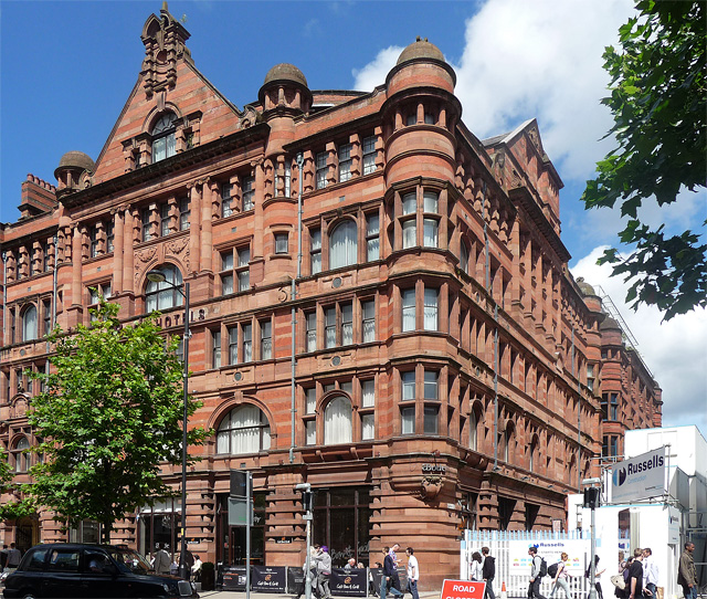 107 Piccadilly Manchester. Built by Charles Heathcote, 1899. It was built as offices and warehousing, and was converted into an Abode Hotel in 2002.